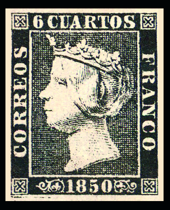 The first postage stamp of Spain. 6 cuartos; black. 1850